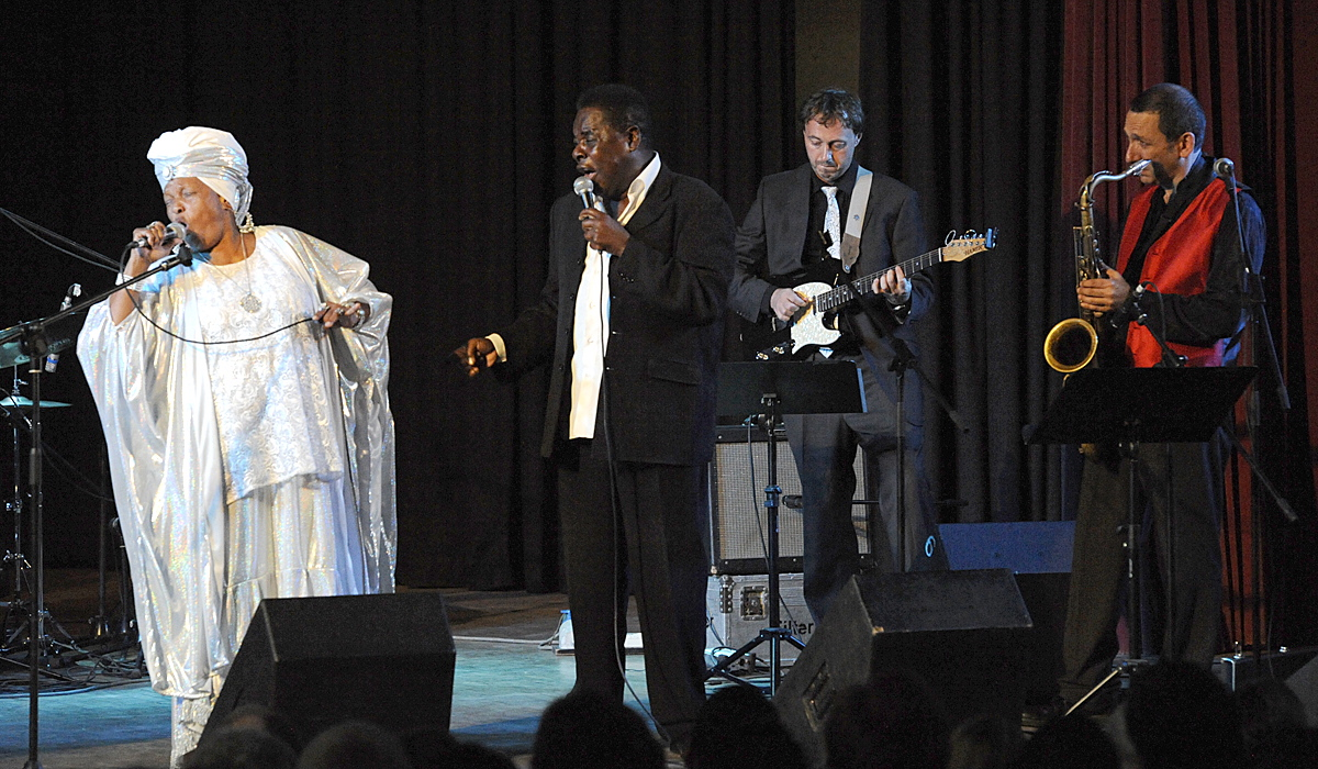 Concert to celebrate the Daniel Pearl World Music Days "Jazz Voices of Israel" Live with saxophonist Shlomi Goldenberg and Friends The U.S. Embassy is pleased to invite the public to a unique concert in memory of Daniel Pearl, an American journalist and musician, kidnapped and murdered by terrorists in 2002. The best of American Jazz classics will be performed by virtuoso Israeli musicians and singers: Elesheva Bat-Israel, Haya Samir, Roy Yang, Shevakhia Bat-Israel, and Gideon Yuval